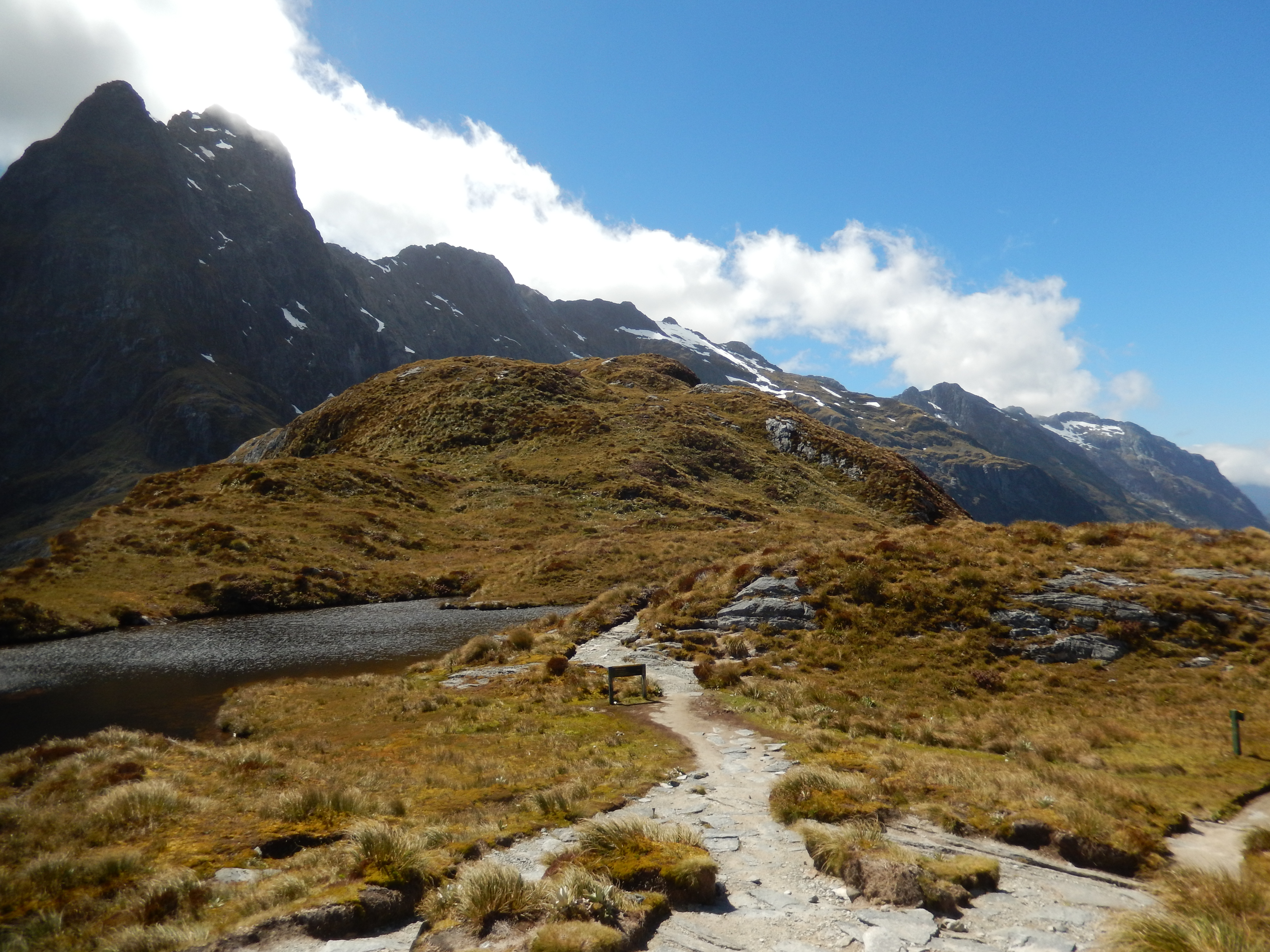 Track near the summit of the Mackinnon Pass on the Milford Track.